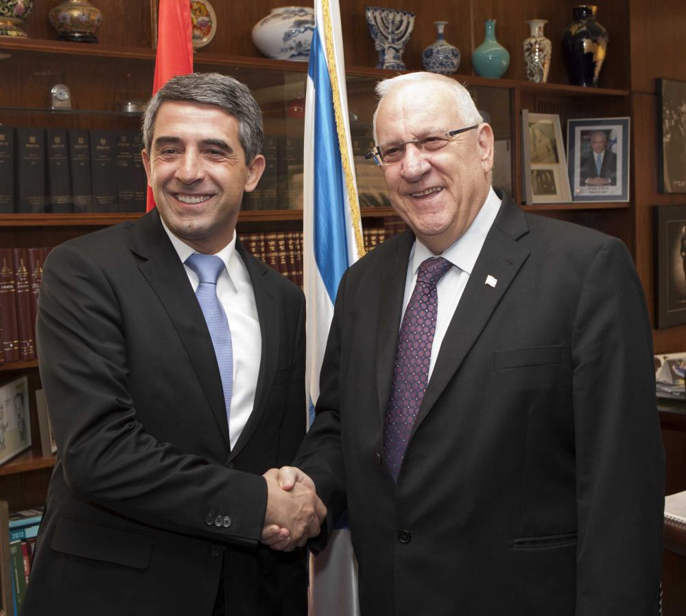 In Jerusalem, President Plevneliev received thanks from Israel for Bulgaria’s assistance and involvement after the bombing in Bourgas.